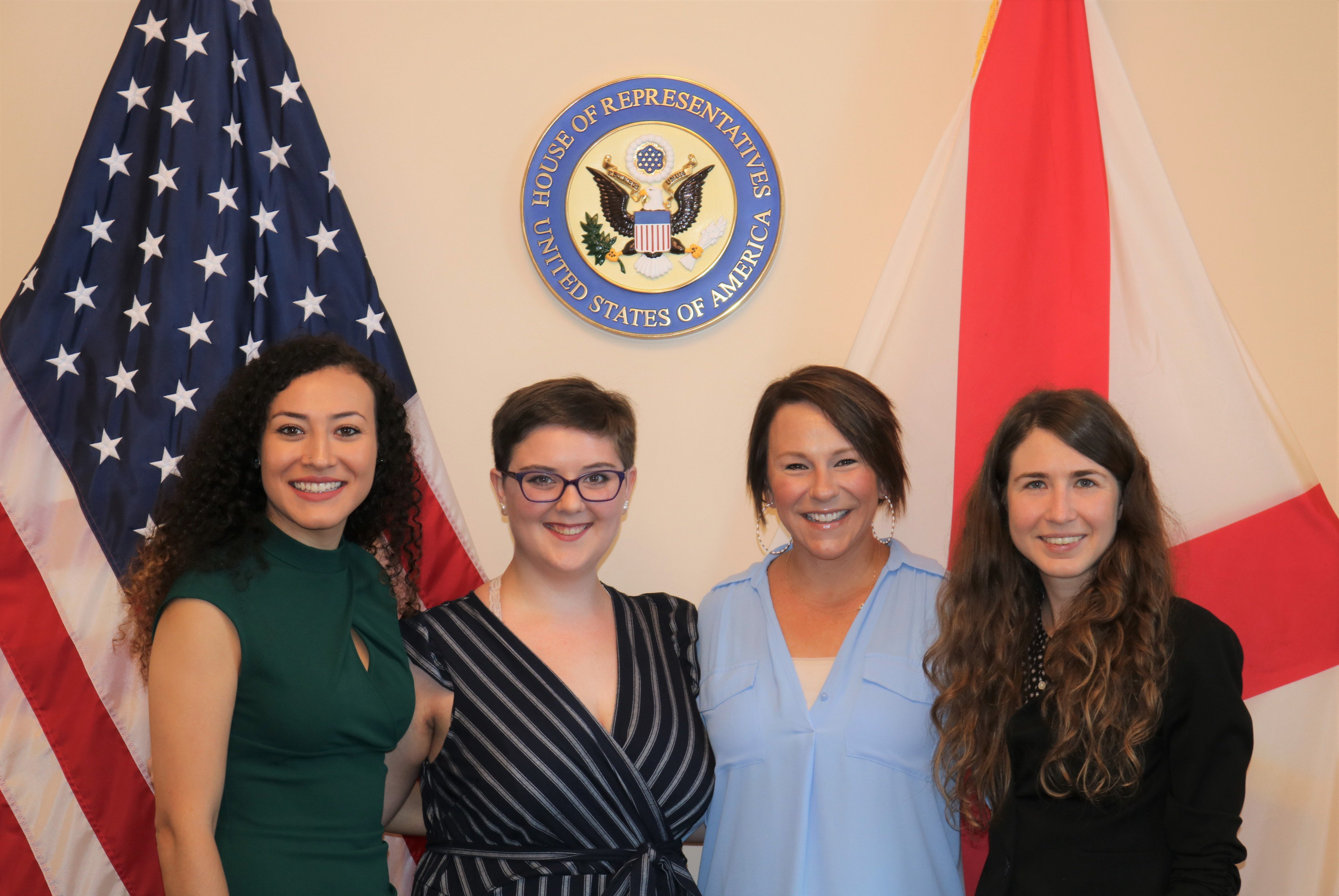 I just met with Alabama members of the Academy of Nutrition and Dietetics. We had a great discussion about how we can improve Americans’ health through food and nutrition. Thanks for your important work and for sitting down with me!